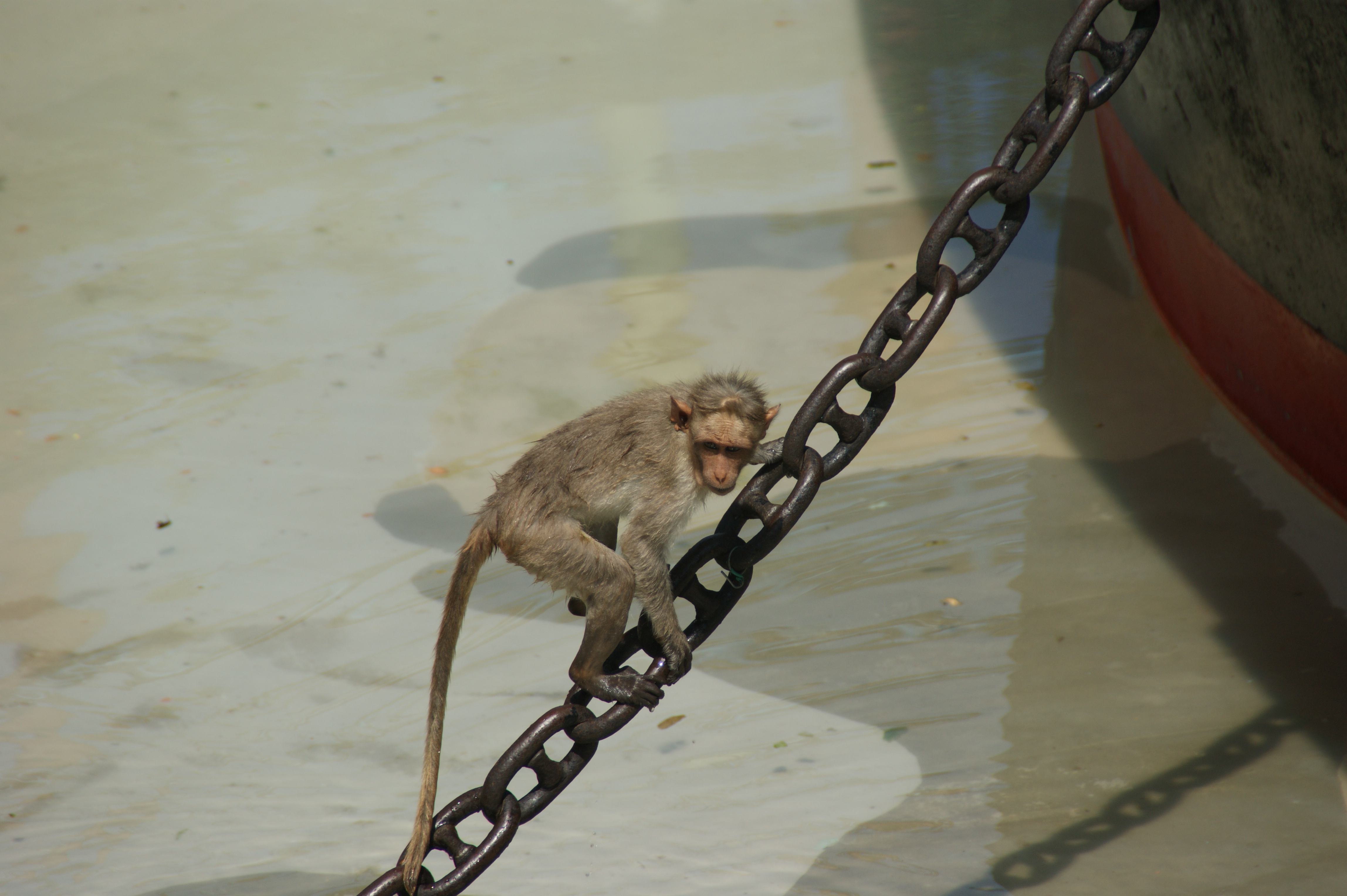 Bonnet macaque . Macaca radiata